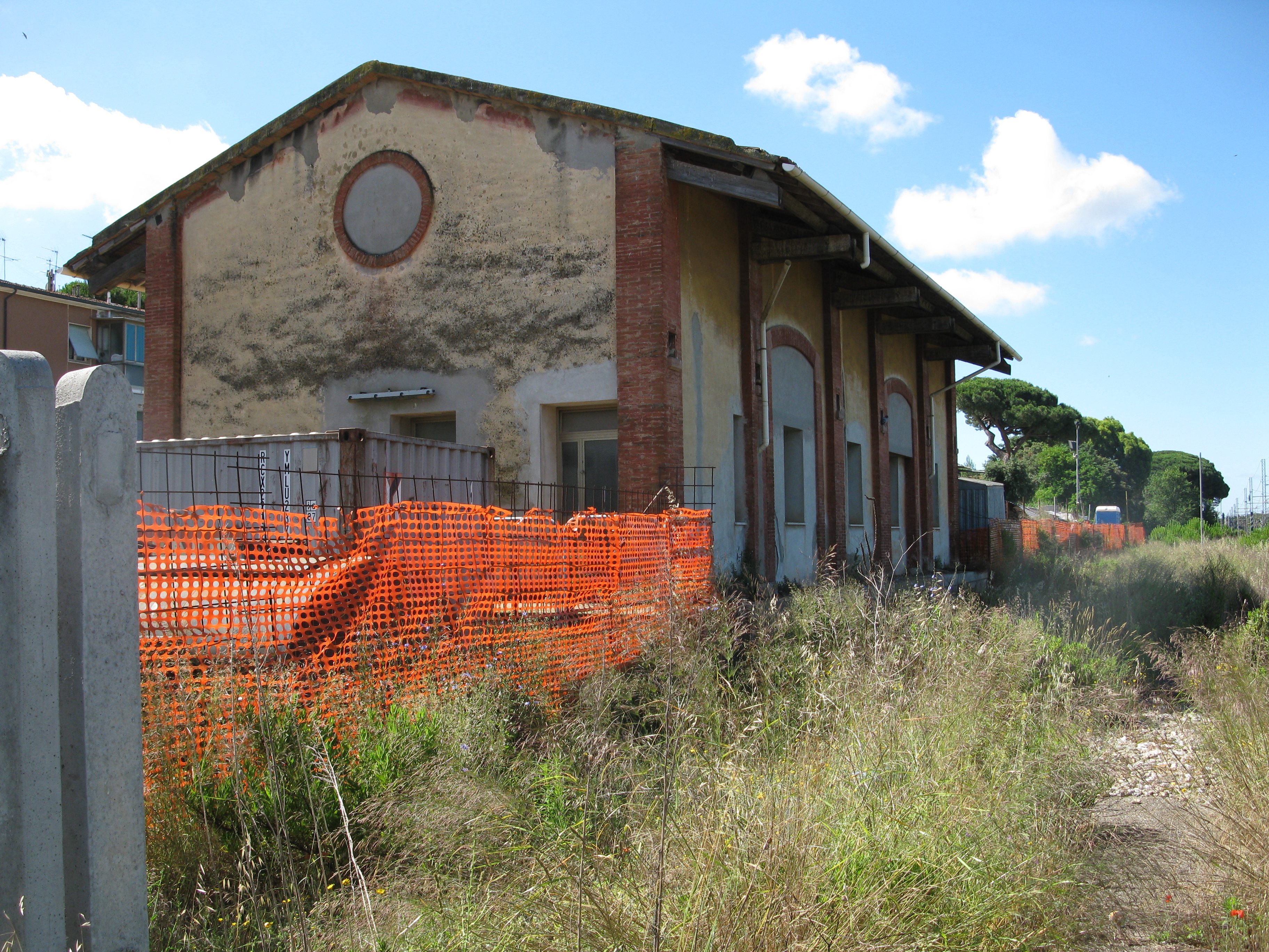 Castagneto Carducci railway station, freight yard